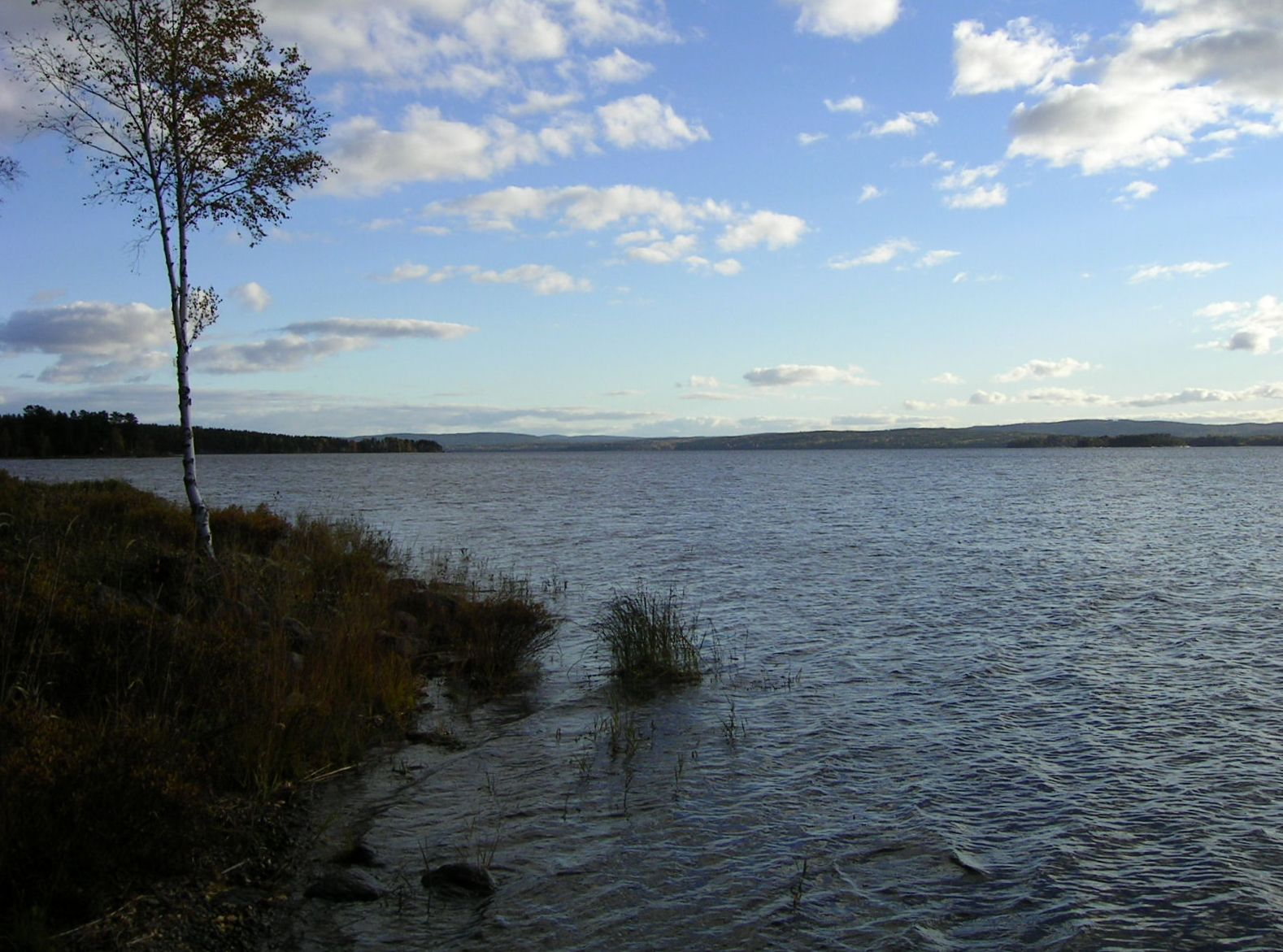 A view of the lake Glafsfjorden near Arvika in the province of Värmland in Sweden.